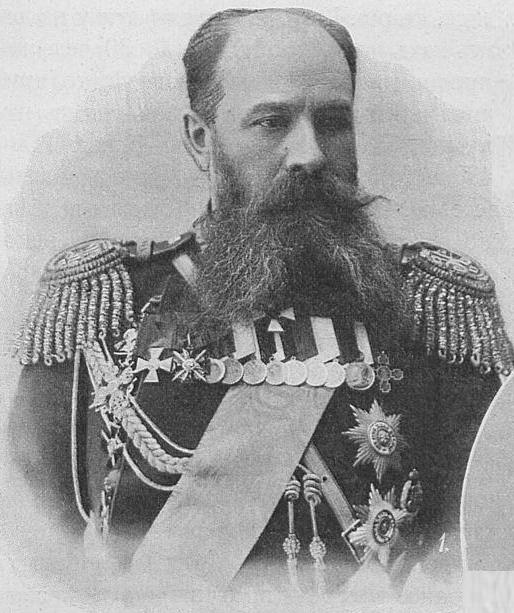 Russian General Oskar Grippenberg